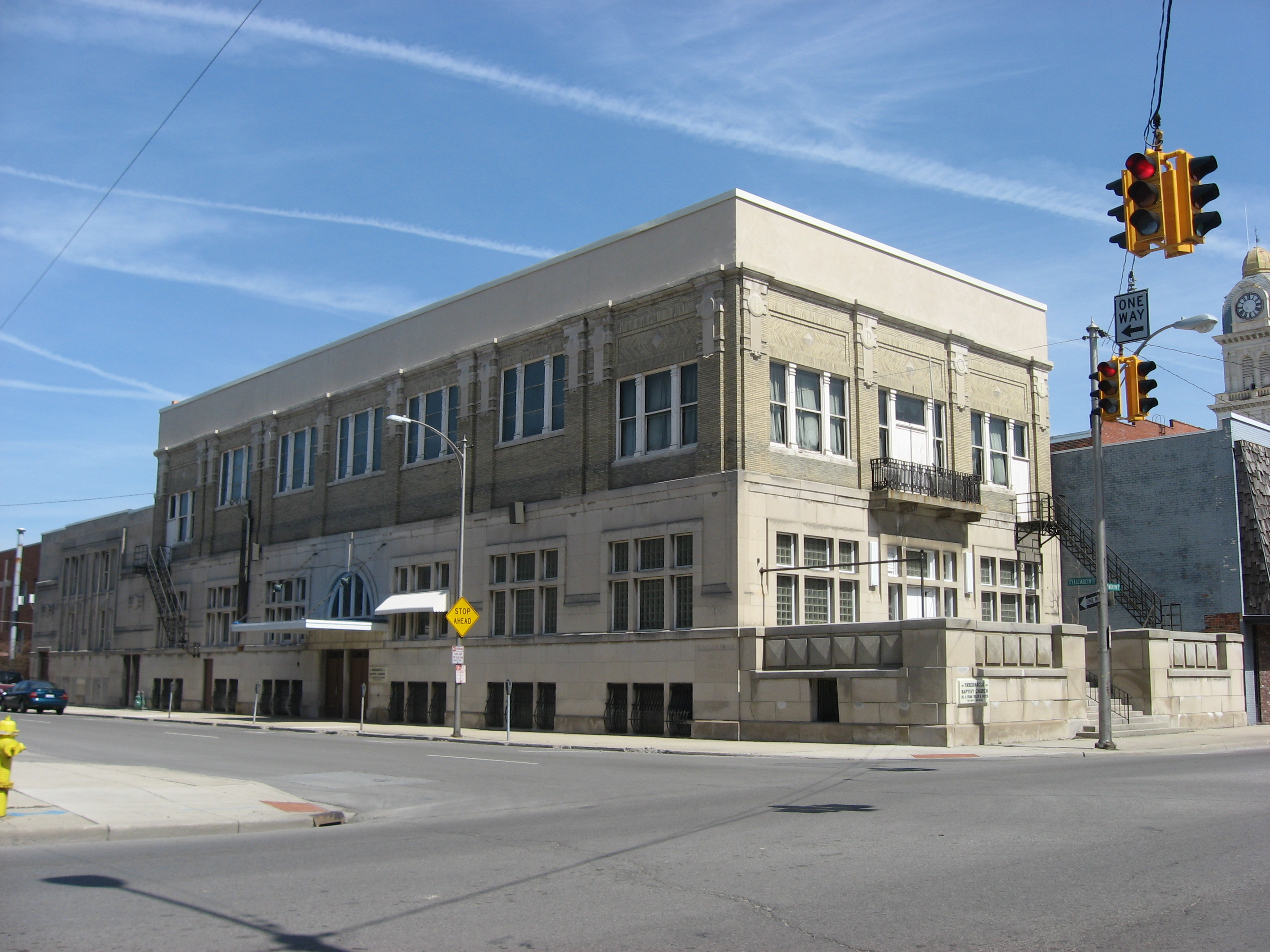 Front and western side of the former Elks Lodge, located at 138 W. North Street in Lima, Ohio, United States. Built in 1909 and since bought by Tabernacle Baptist Church, it is listed on the National Register of Historic Places.